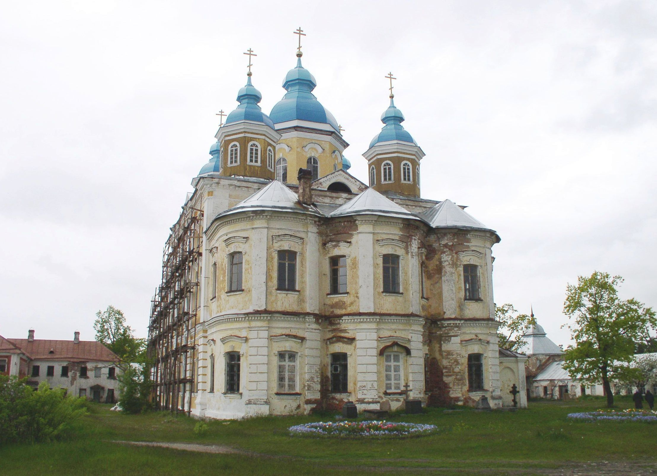 Konevsky monastery, the cathedral from the east